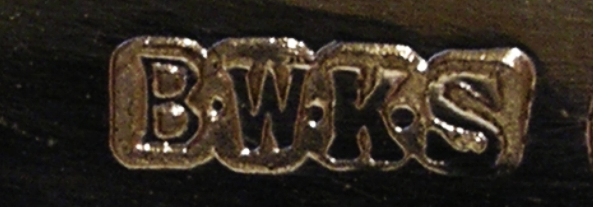 Hallmark of BWKS, Bremen, Germany. Ca. 1925